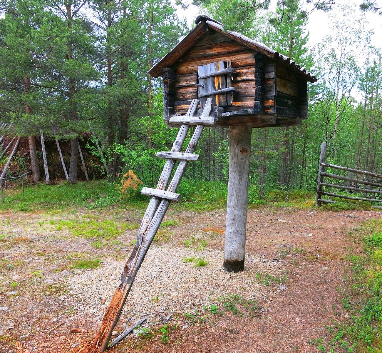 Sámi storehouse in Siida museum (Inari, Finland). The storehouses were built to the stakes to defend the food from animals.